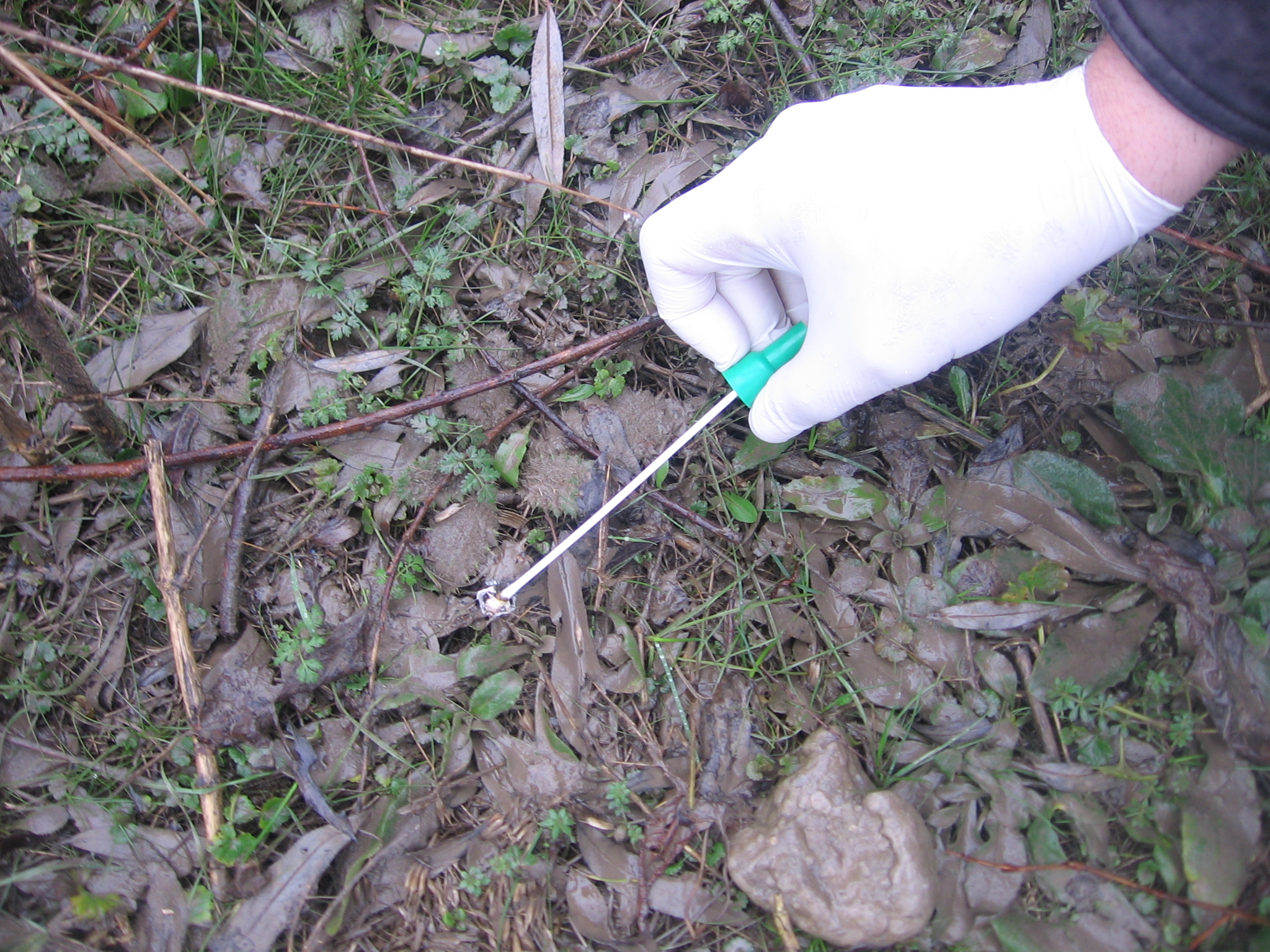 Probe